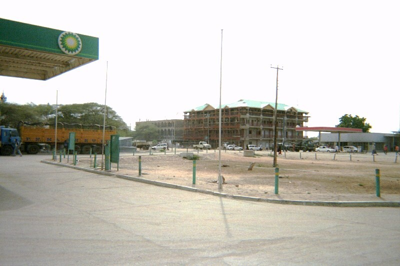 Central Garissa, Kenya.